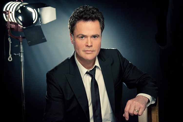 American entertainer Donny Osmond